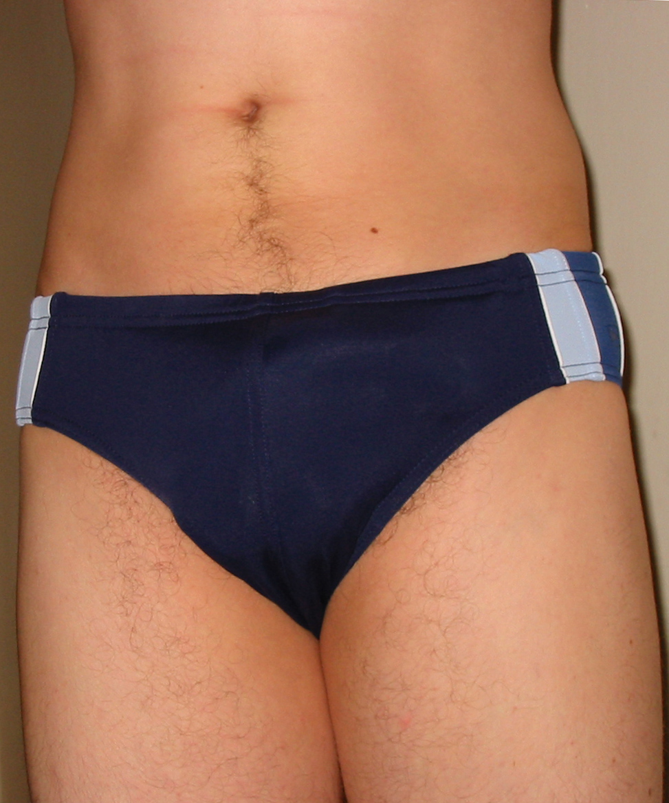 Image of man wearing speedo type swimming costume